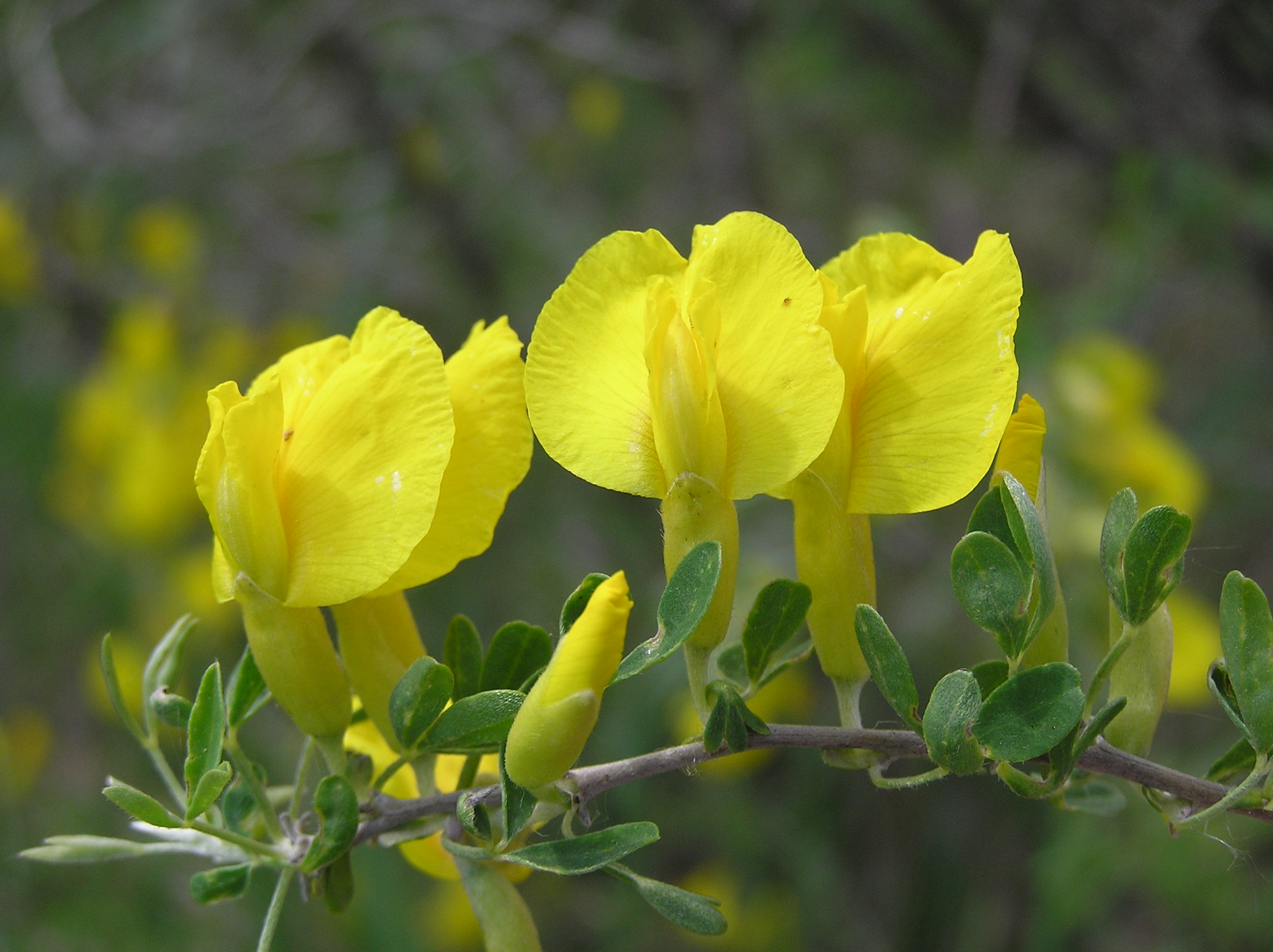 Flowers of Chamaecytisus ruthenicus (Fisch. ex Vorosch.) Klask. Habitat: dry medow on a north facing slope. Vicinity of Saratov city, Russia.